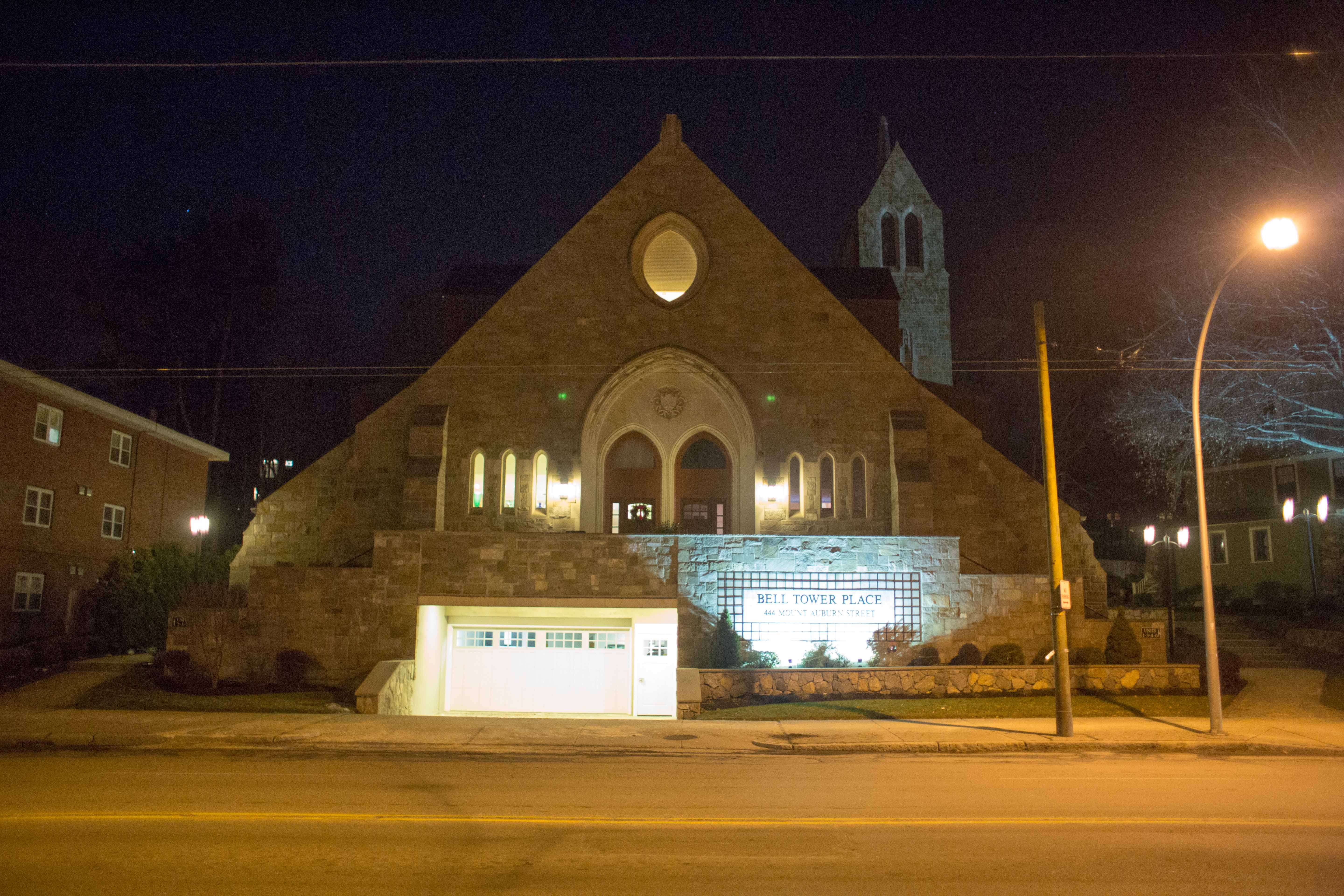 Converted Church, Watertown, Massachusetts